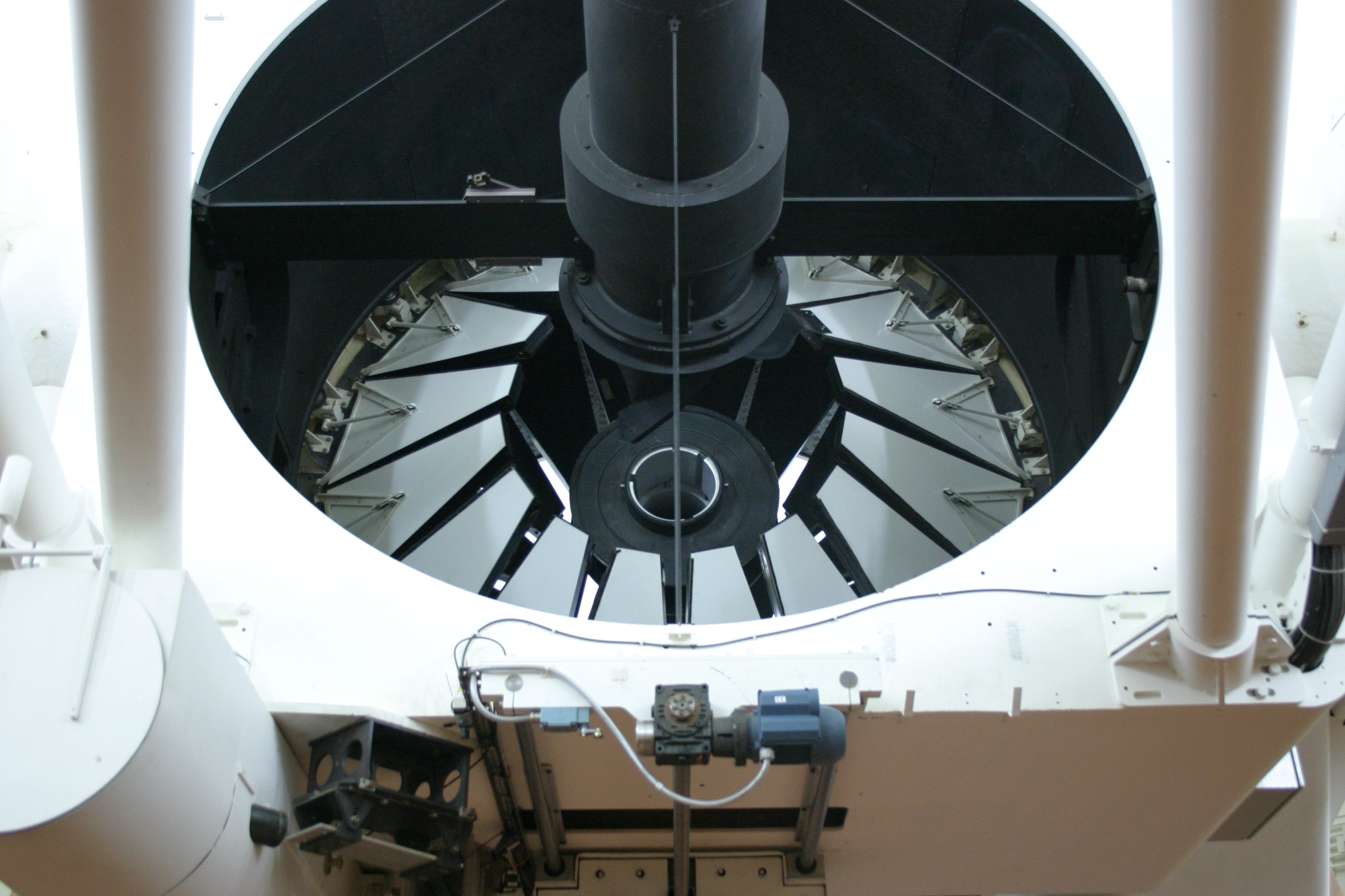 Main mirror of the Isaac Newton Telescope on the Roque de los Muchachos observatory on La Palma, Spain. Mirror is shown with the cover just opening up.